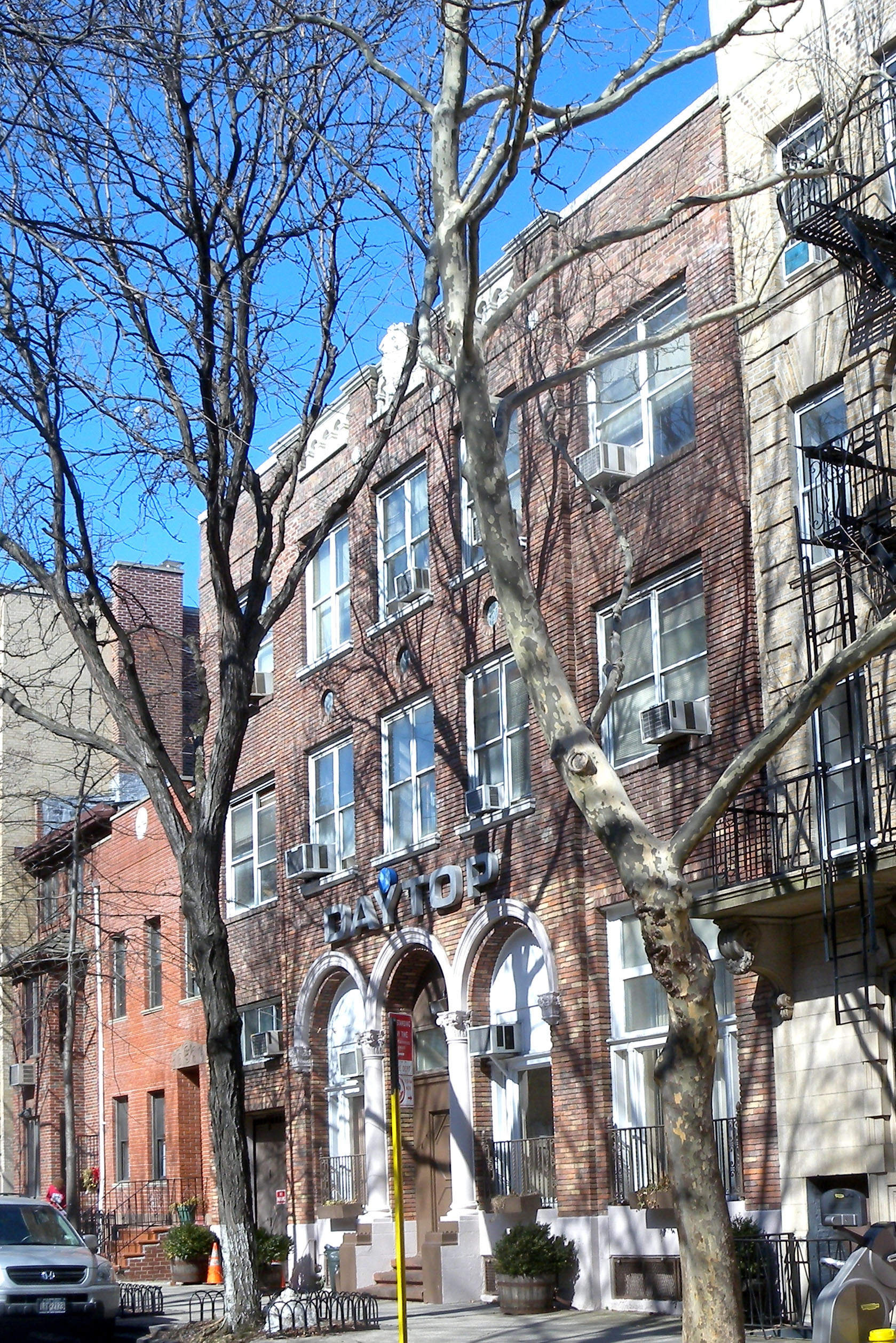 Looking northwest along State Street at Daytop building on a sunny midday.